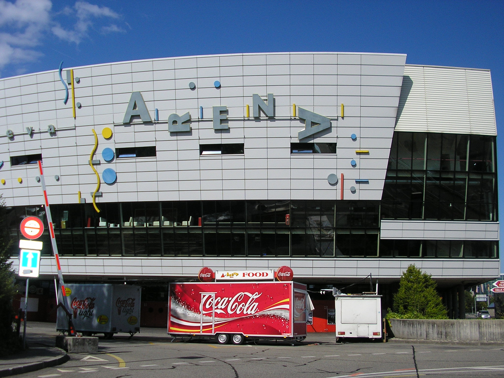 The Arena concert hall in Geneva.